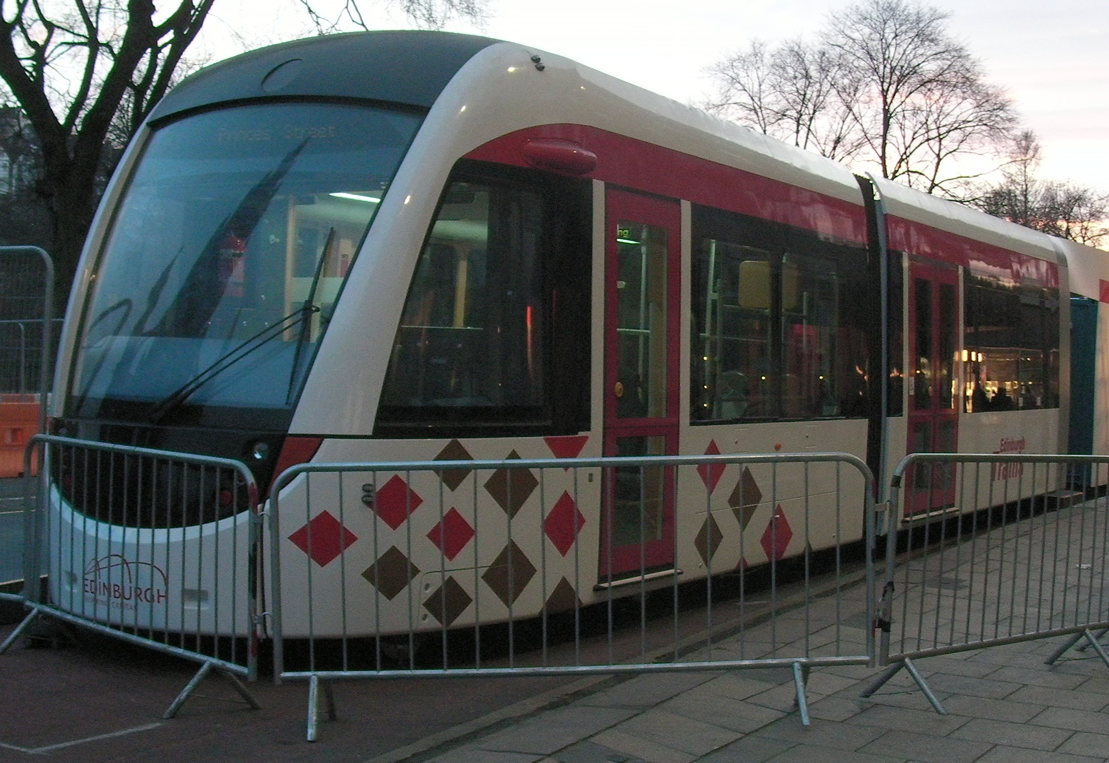 A scale replica of the proposed Edinburgh Trams, seen sitting on Princes Street.